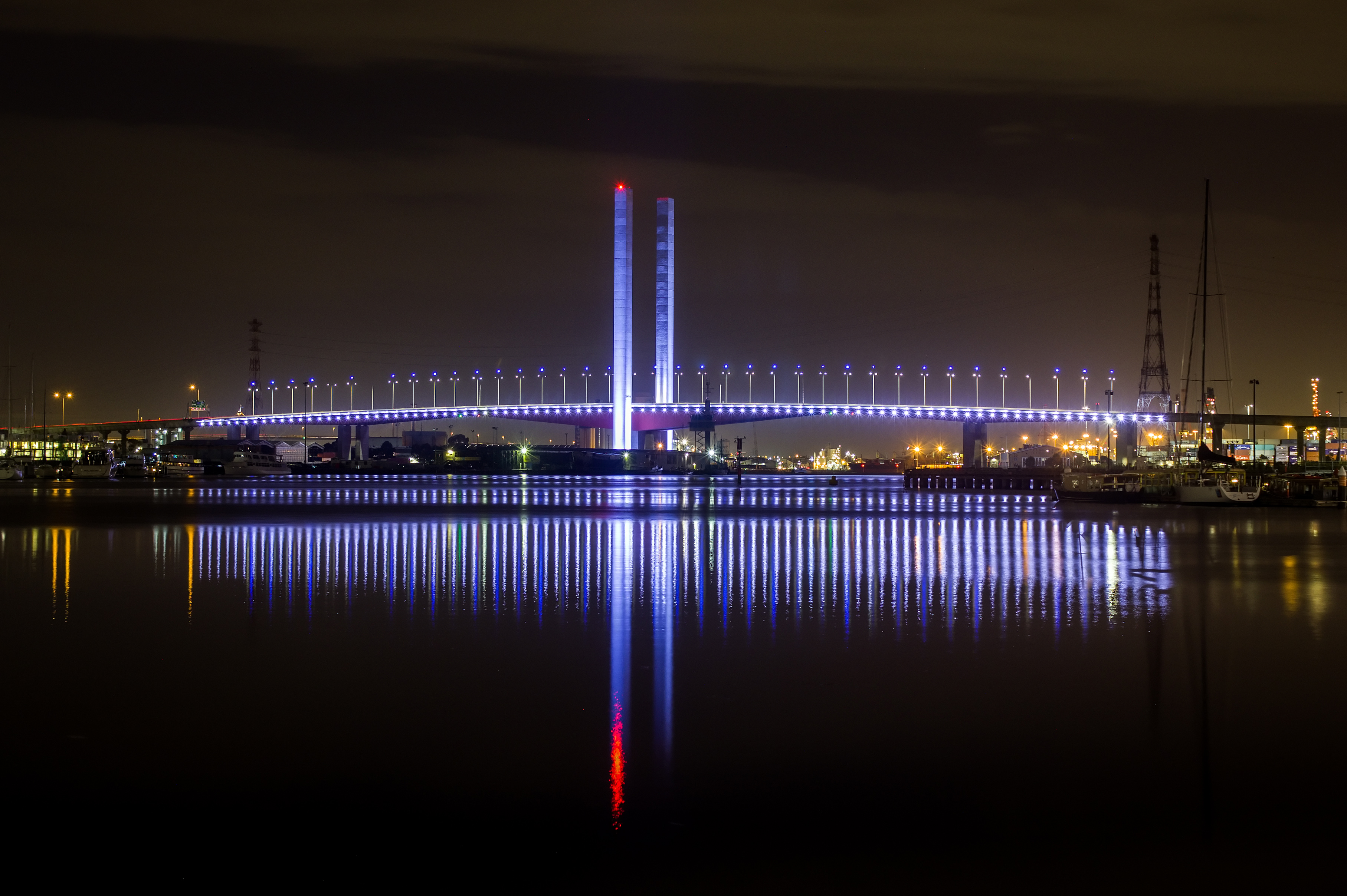 Bolte Bridge, Melbourne 2017-10-28